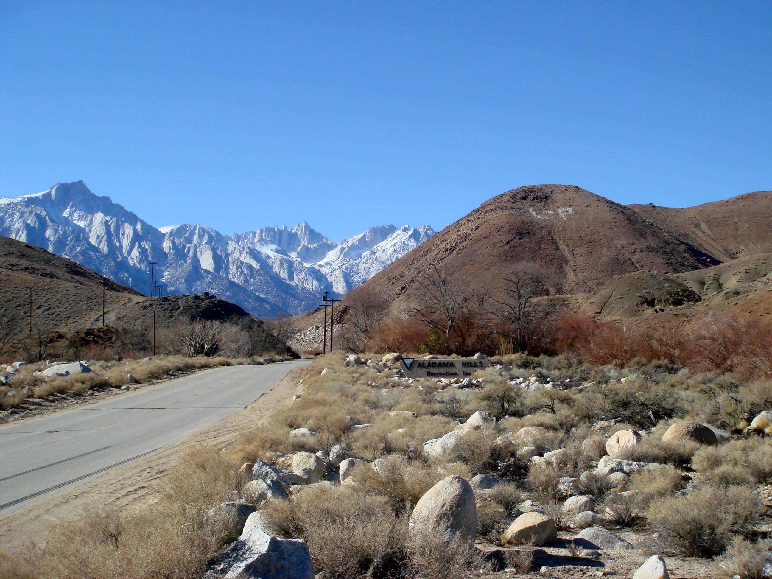 The main entrance Alabama Hills Recreation Area, a protected area just west of Lone Pine (the Mountain Monogram is for the town)